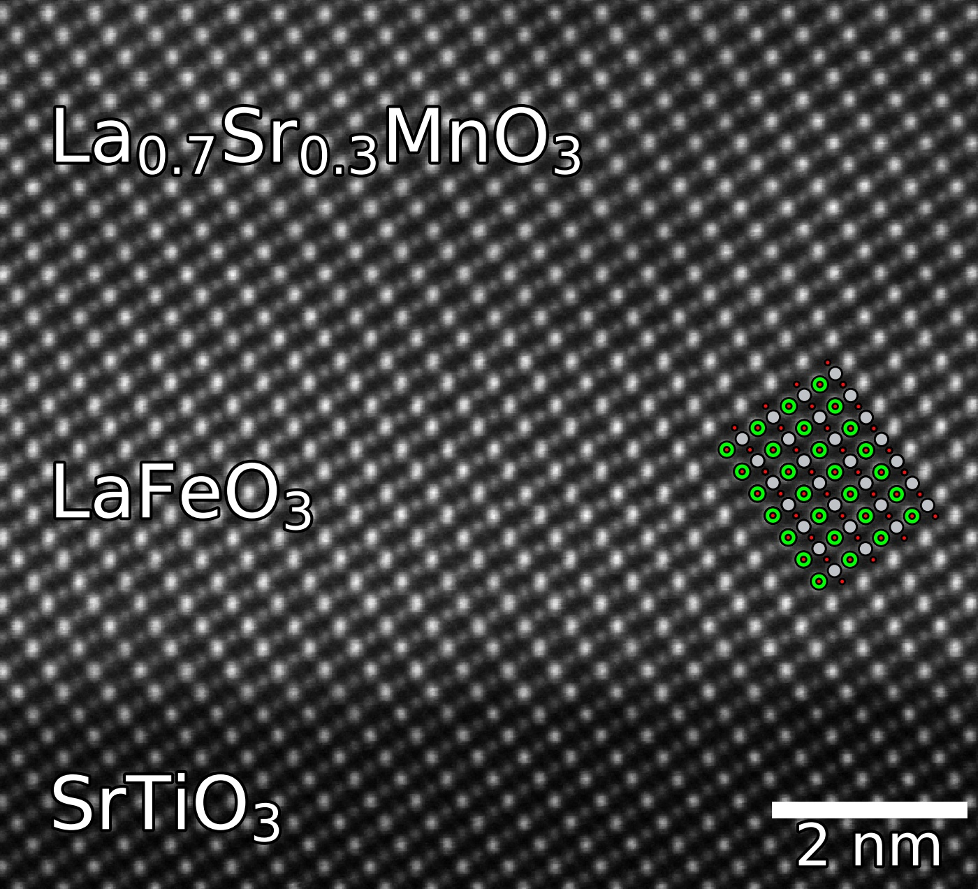 This shows an atomic resolution scanning transmission electron microscopy image of a perovskite oxide thin film system. The perovskite oxides La0.7SrMnO3 and LaFeO3 has been deposited onto a SrTiO3-(111) substrate, using pulsed laser deposition. The image has been acquired with the electron parallel to SrTiO3's [1-10] direction.